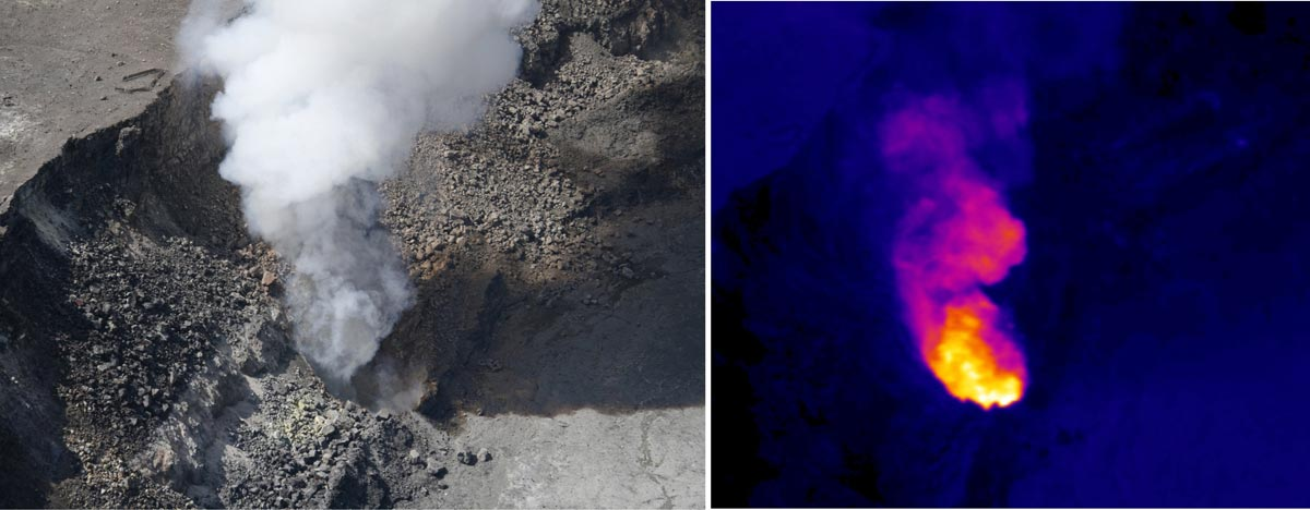 Helicopter view of March 19, 2008 vent hole in Halema'uma'u Crater.